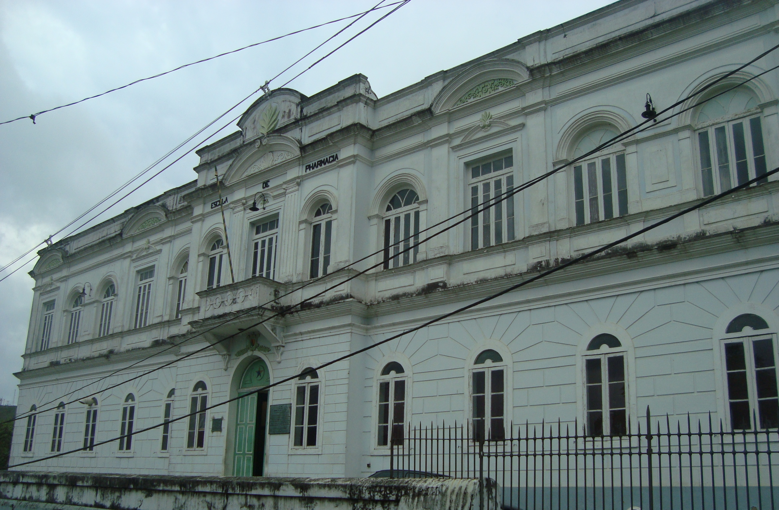 School of pharmacy